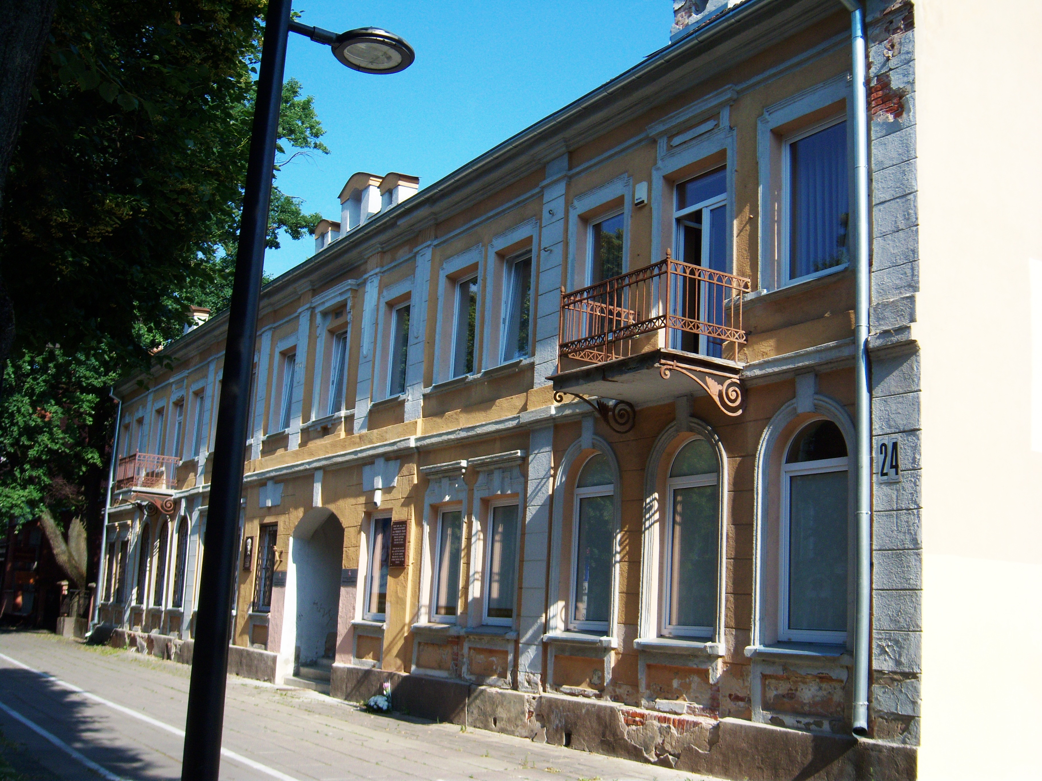 Former Maternal and Child Health Centre and Mother and Child Museum, Kaunas, Lithuania